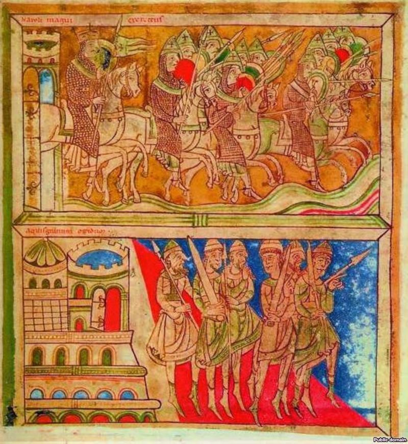 Codex Calixtinus (Liber Sancti Jacobi), 1135-1139AD Folio 162v Charlemagne, Roland and the Knights on their way to Compostela, Spain Held in the Cathedral of Santiago de Compostela, Galicia (Spain)